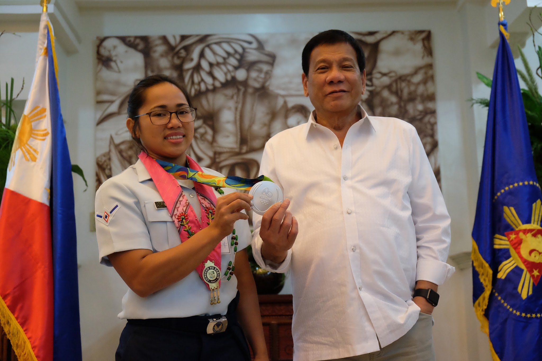 President Rodrigo Duterte poses with Hidilyn Diaz, the first Filipina and Mindanaoan Olympic silver medalist, during a courtesy call at the Presidential Guest House in Panacan, Davao City on August 11.